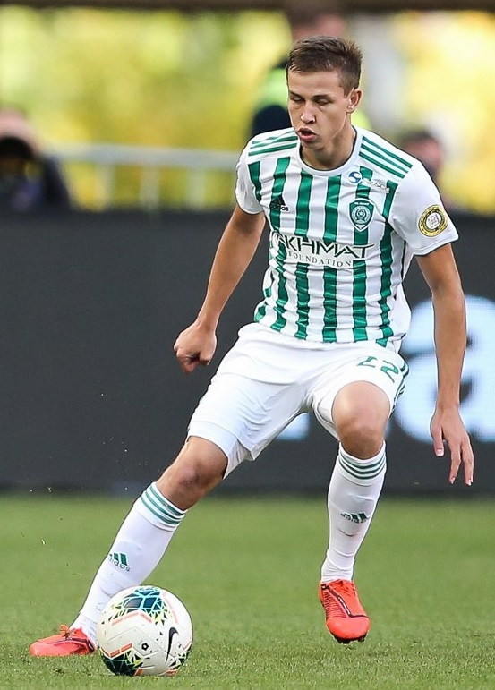 Lechi Sadulayev with FC Akhmat Grozny in a game against PFC CSKA Moscow.